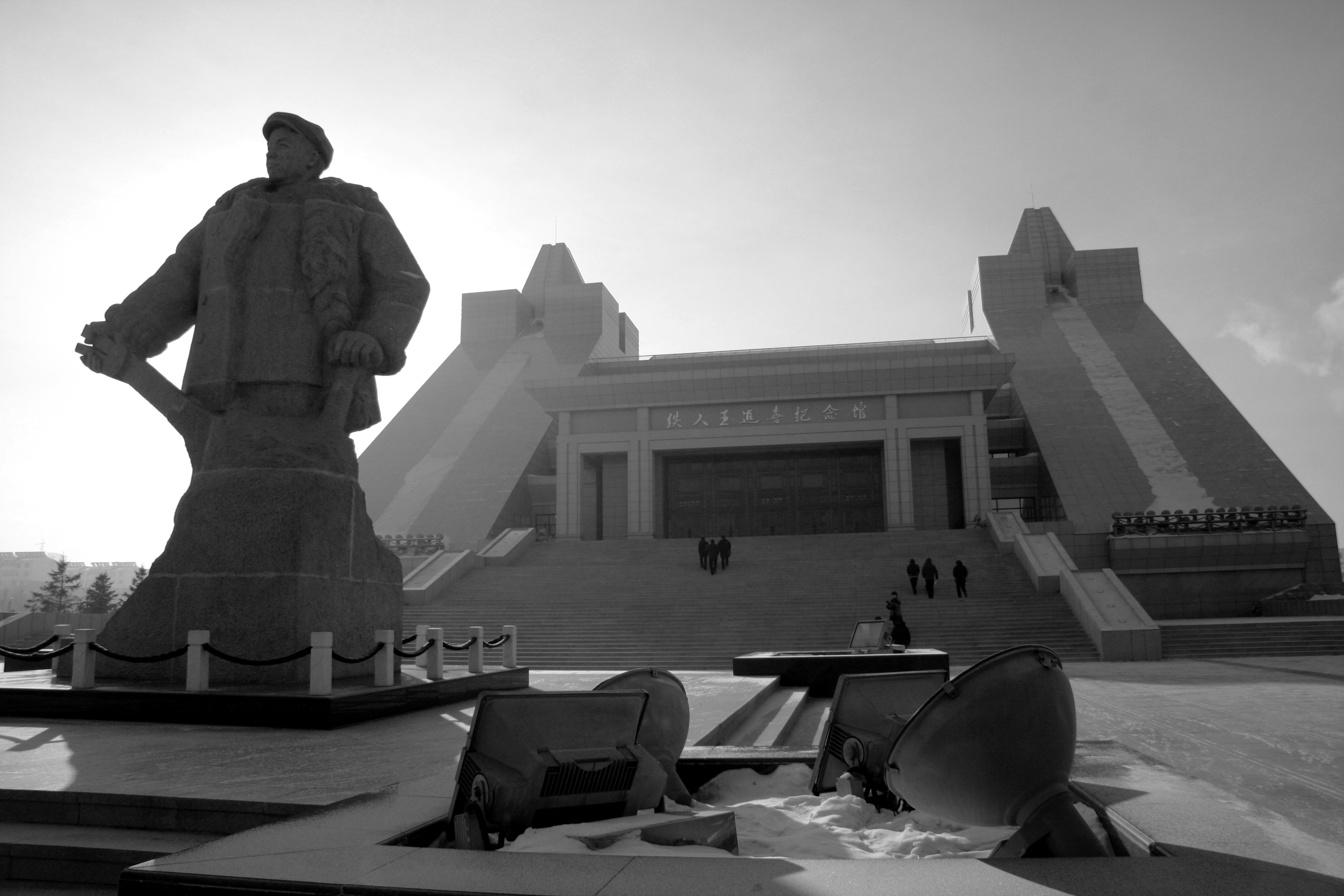 Iron Man Wang Jinxi at his memorial museum in Daqing, China